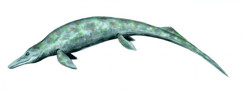 Cymbospondylus, an ichthyosaur from the Middle Triassic of Nevada, pencil drawing